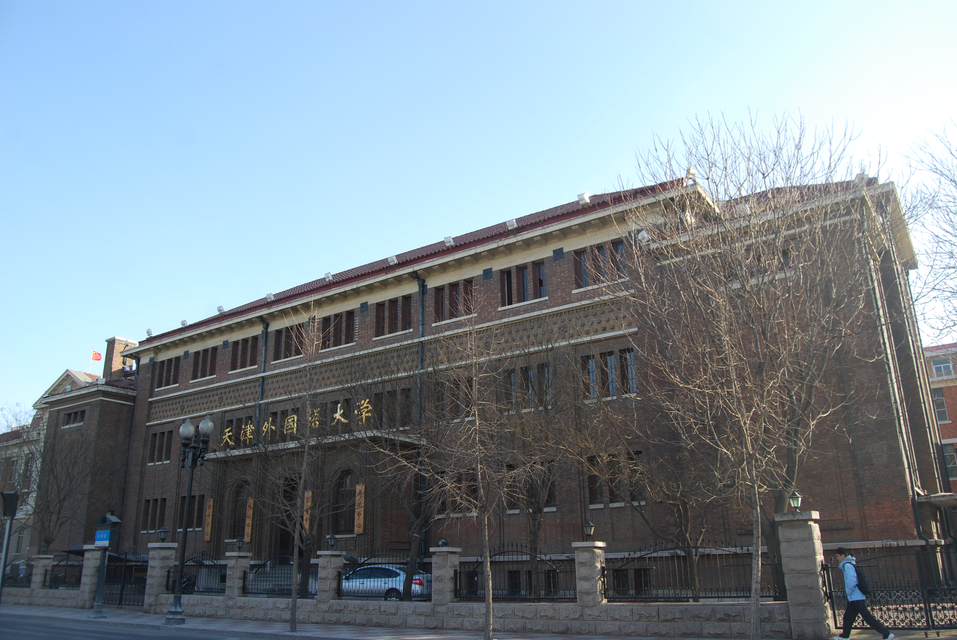 Former Institut des Hautes Etudes et Commerciales in Machang Dao No. 117–119, Heping District, Tianjin